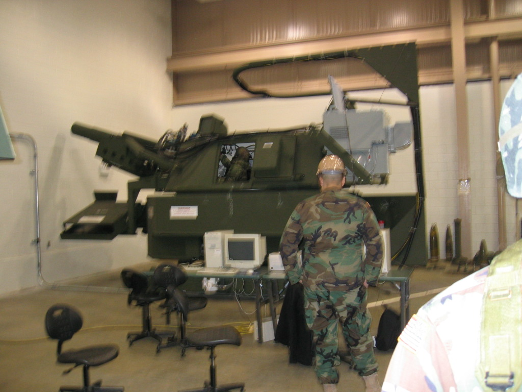 A FSCATT trainer for a M109 howitzer - HCT system external view.